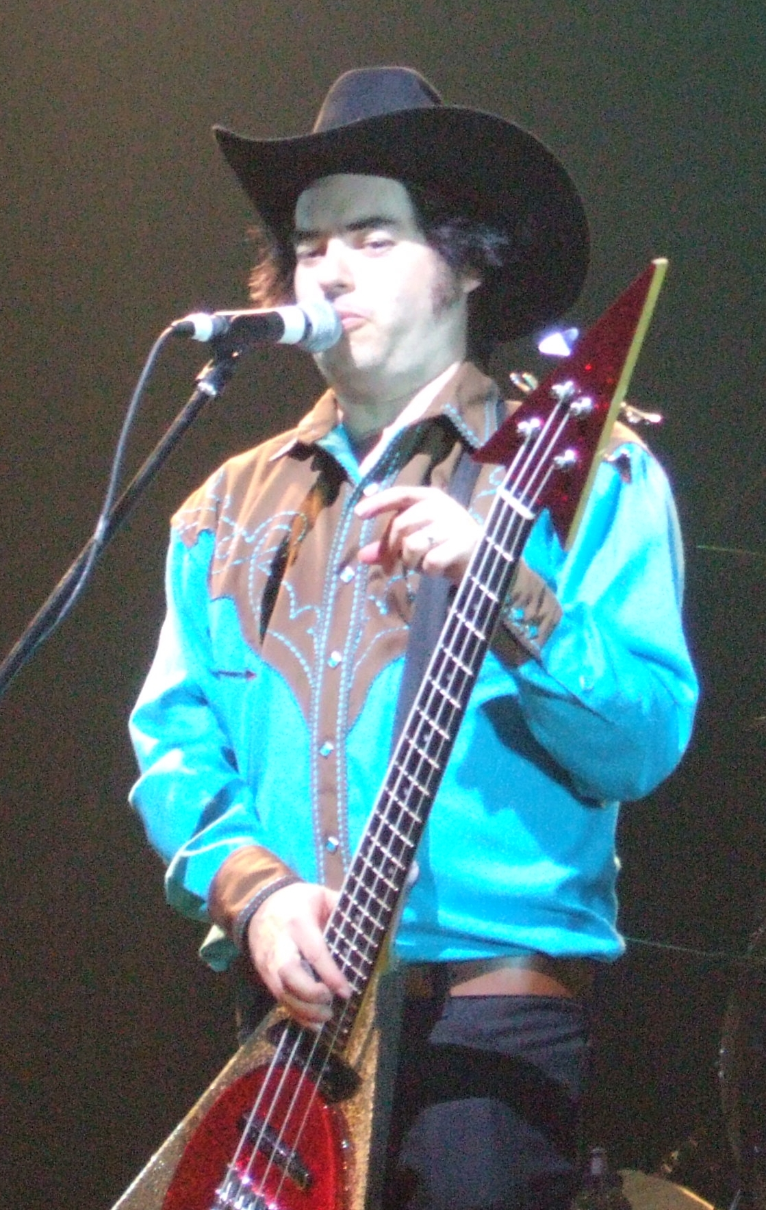 Photo of singer Fat Mike in concert.